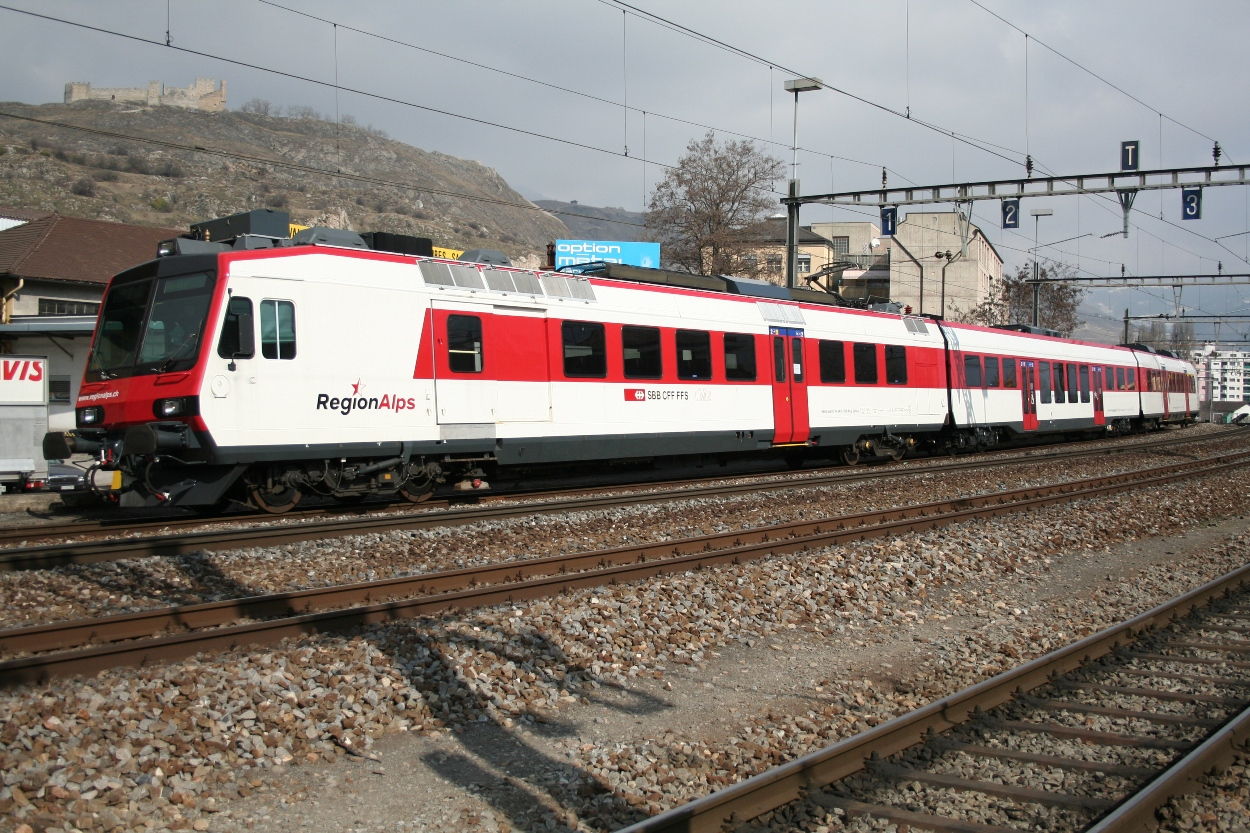 Rame Domino SBB CFF FFS RegionAlps